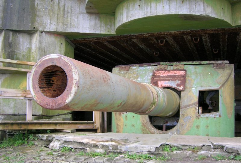 Artillery from the frigate "Niels Juel"